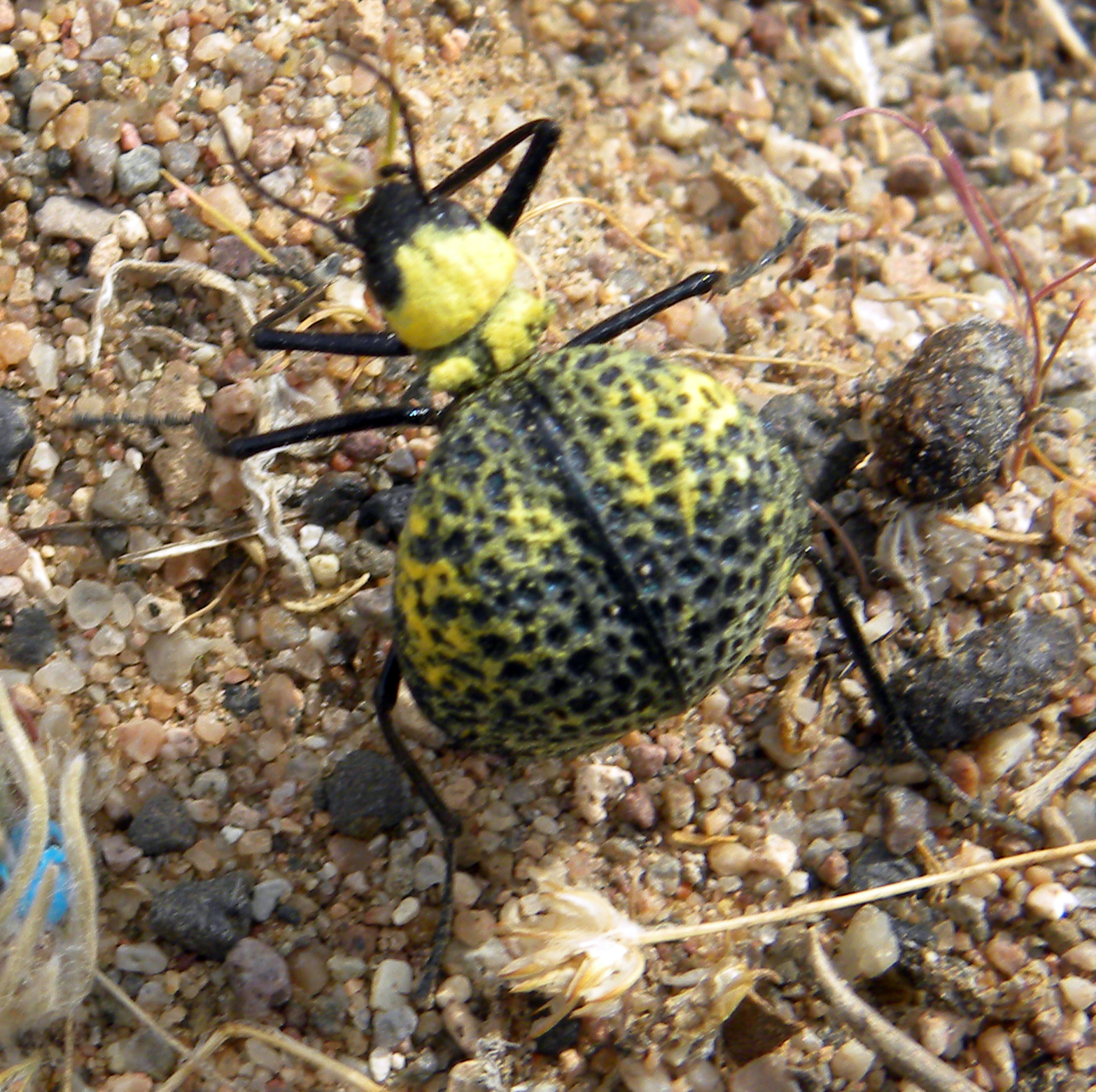 Blister beetle Cysteodemus armatus near Amboy Crater, Mojave Desert, California. The yellow color is flower pollen.